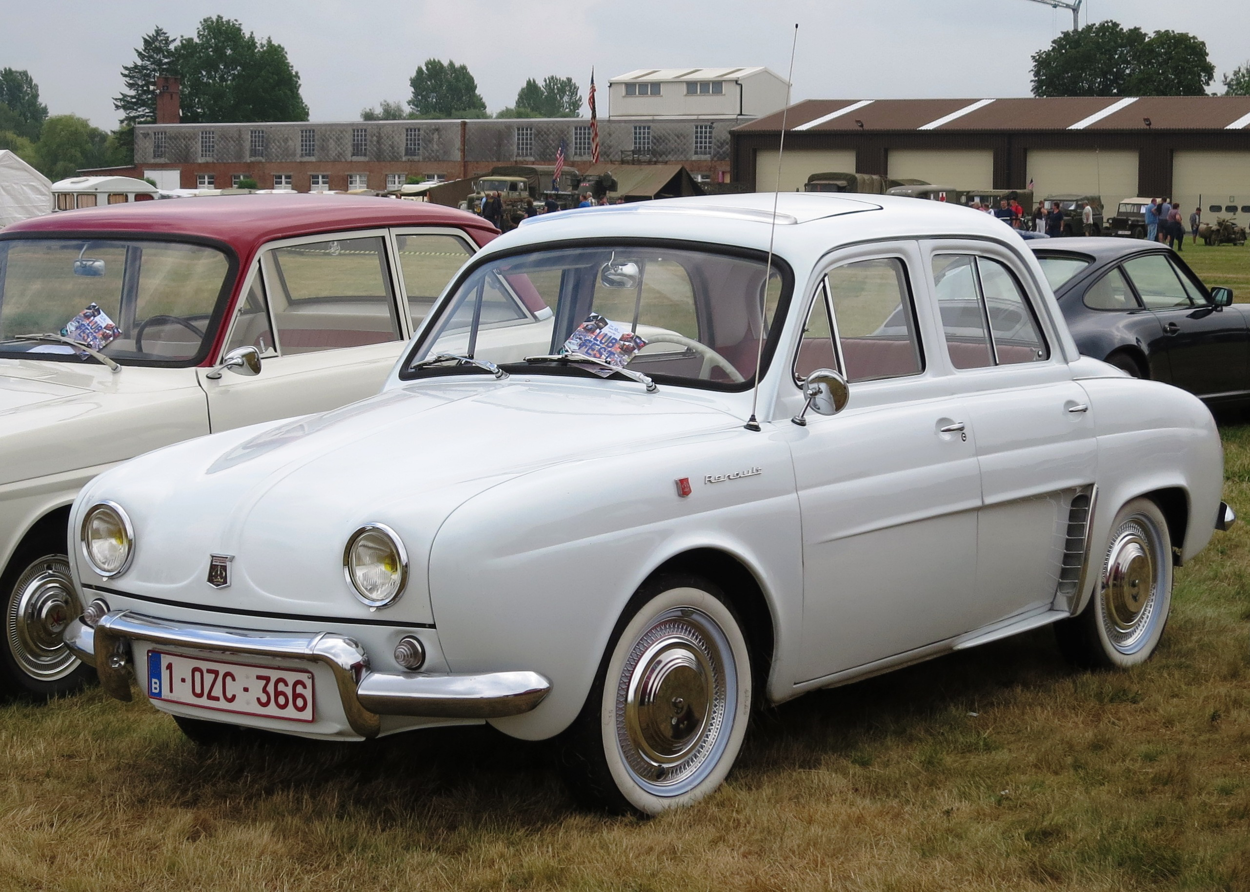 Renault Dauphine in Belgium